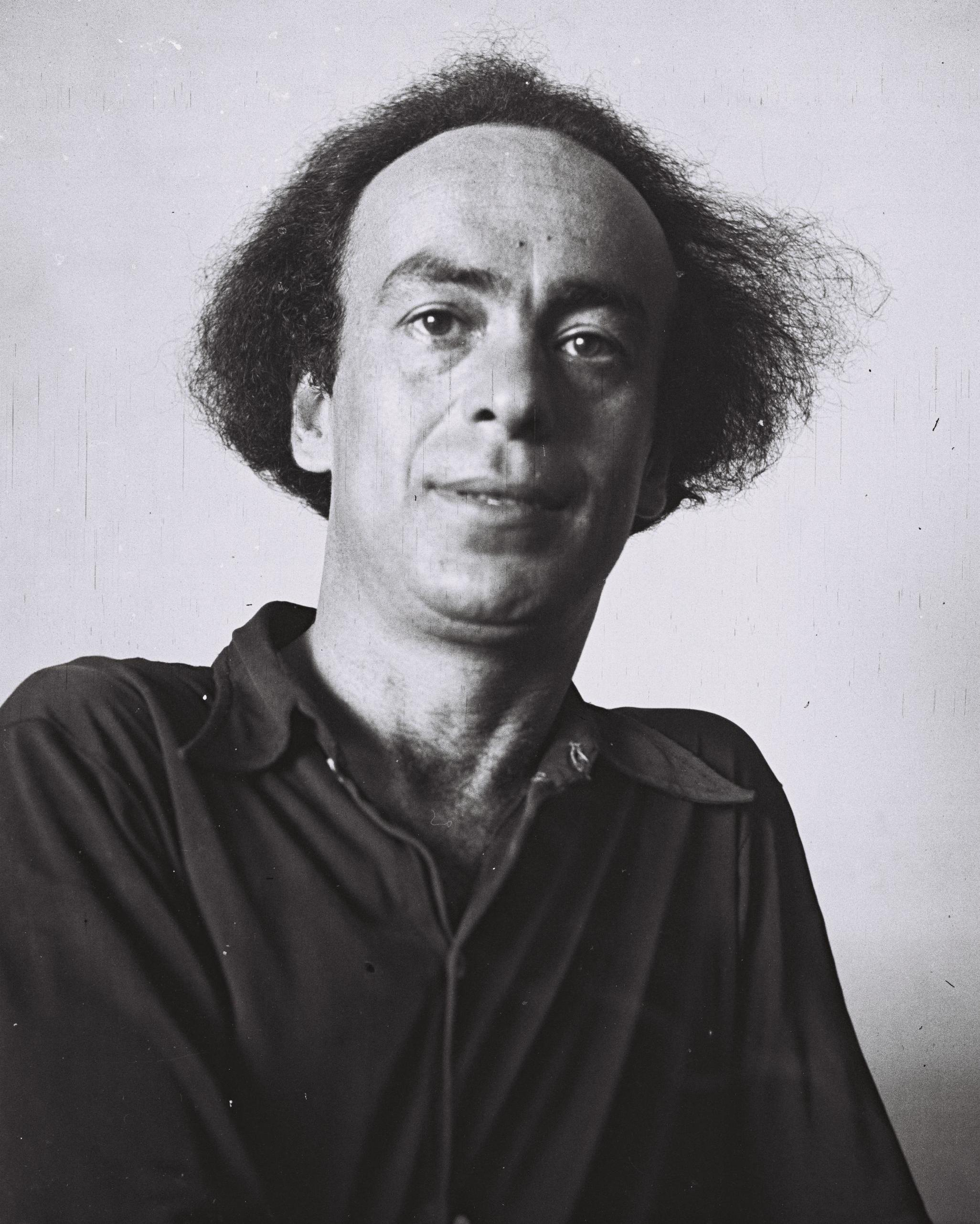 original description:THE POET AVRAHAM SHLONSKY.